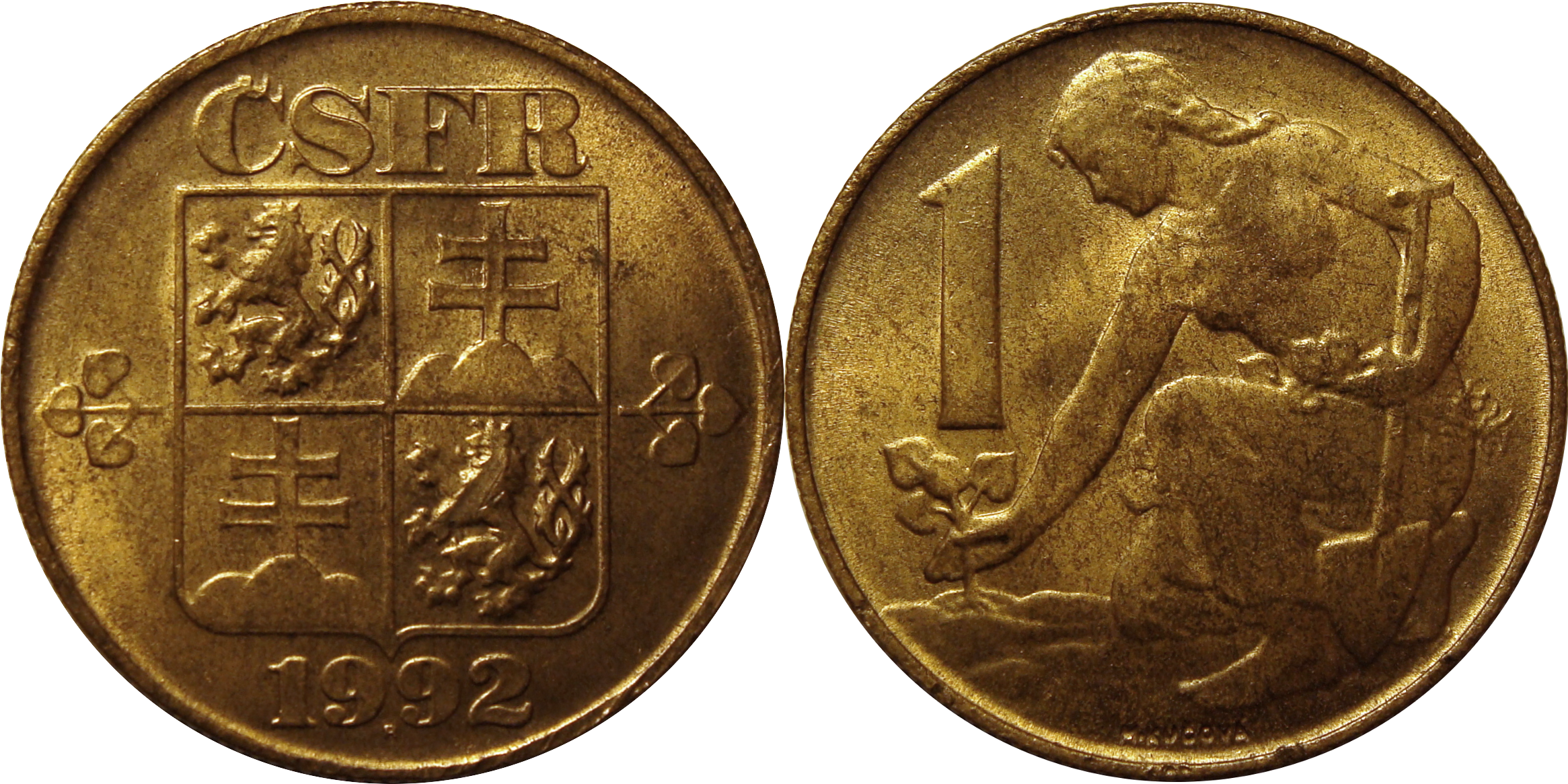 1 czechoslovak koruna, pattern from 1991. Author of obverse: Miroslav Ronai, reverse: Marie Uchytilová-Kučová.